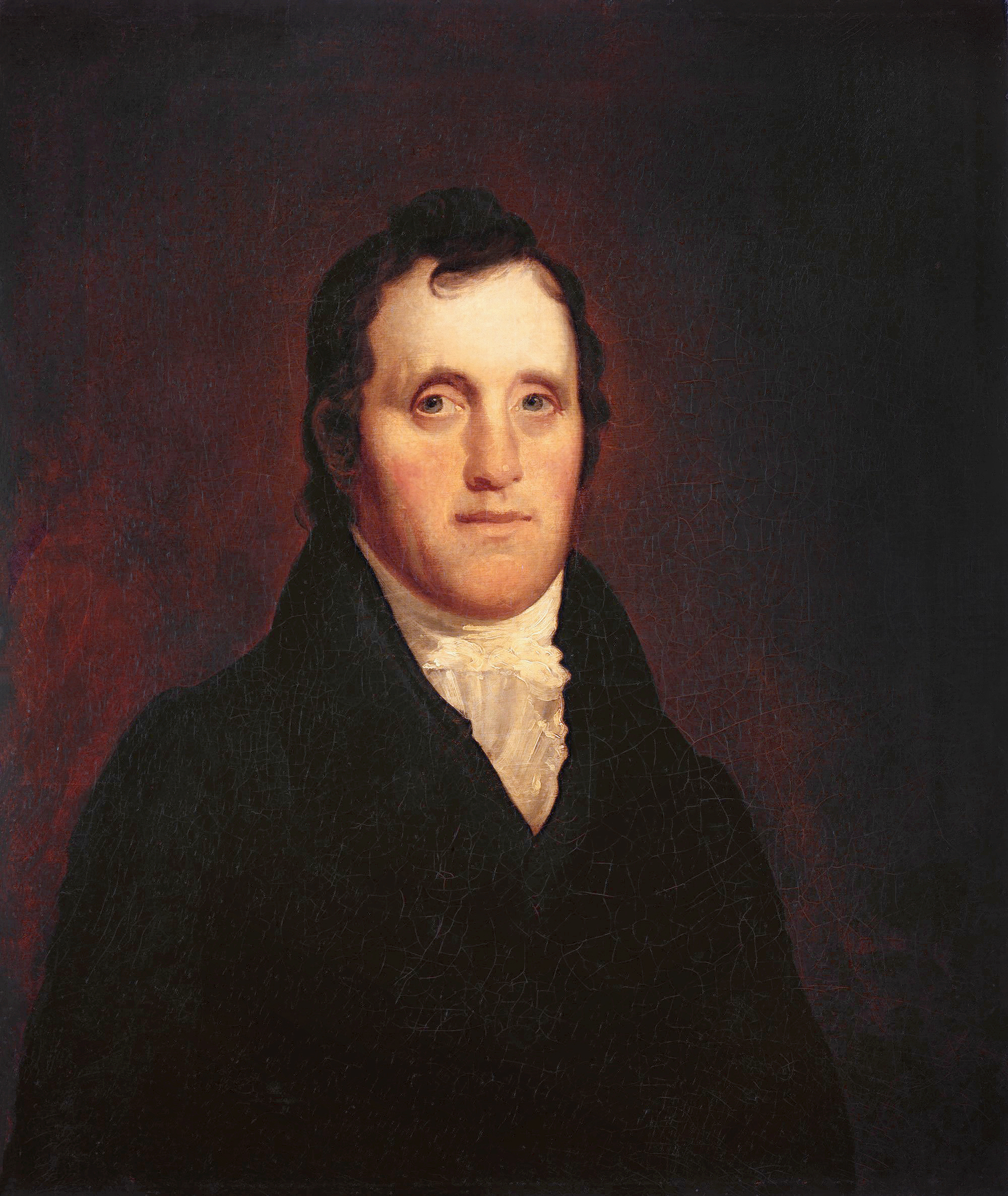 Portriat of Daniel D. Tompins